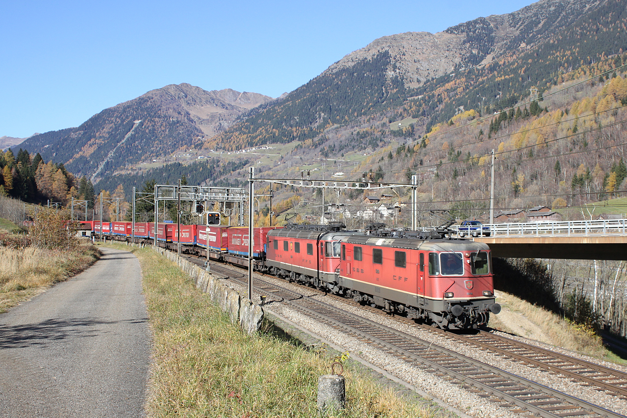 SBB CFF FFS Re 4/4 II 11290 and Re 6/6 11628 at Rodi-Fiesso.